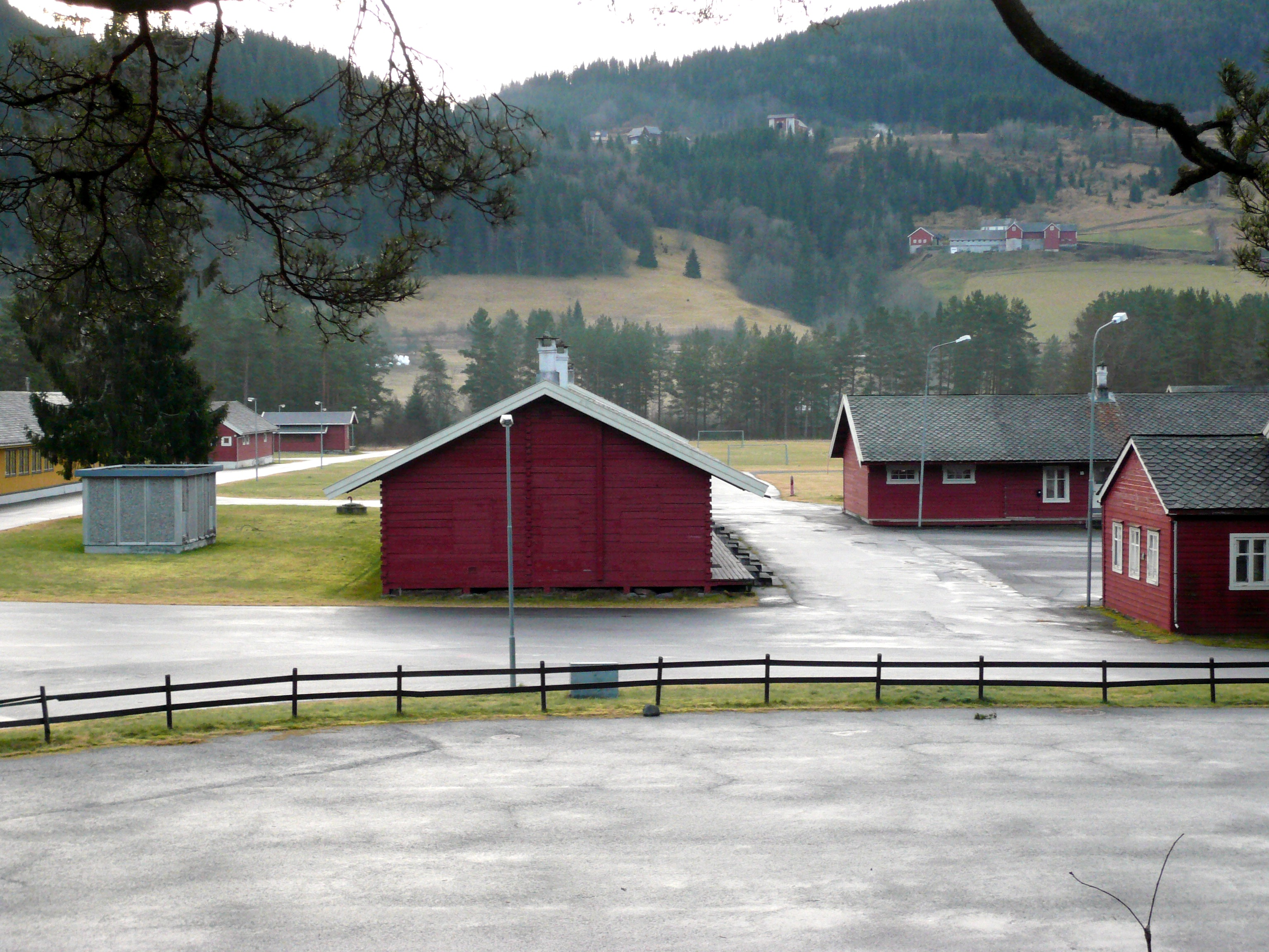 Bømoen, Voss, Norway